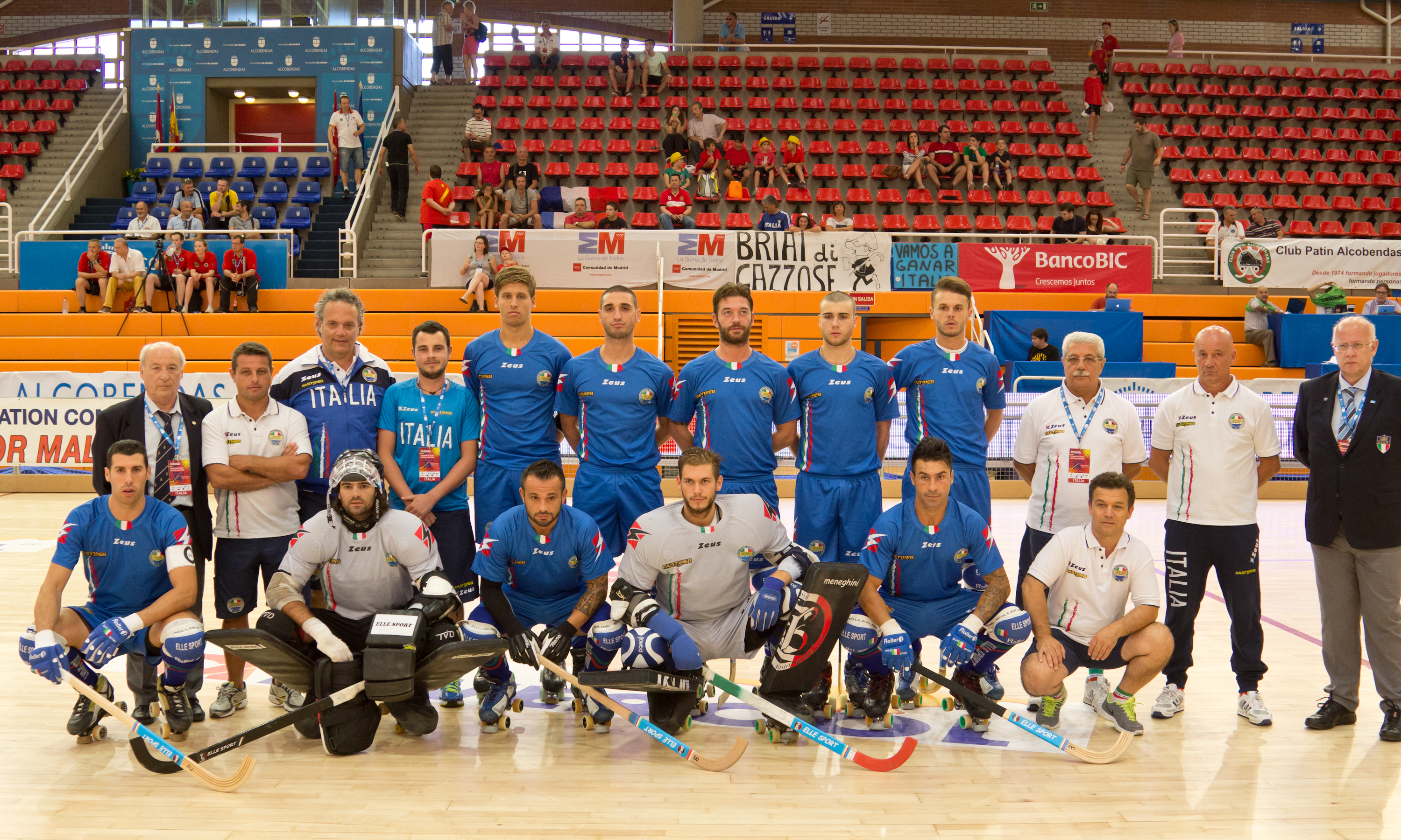 Italy national roller hockey team at the 2014 CERH Championship in Alcobendas, Spain.